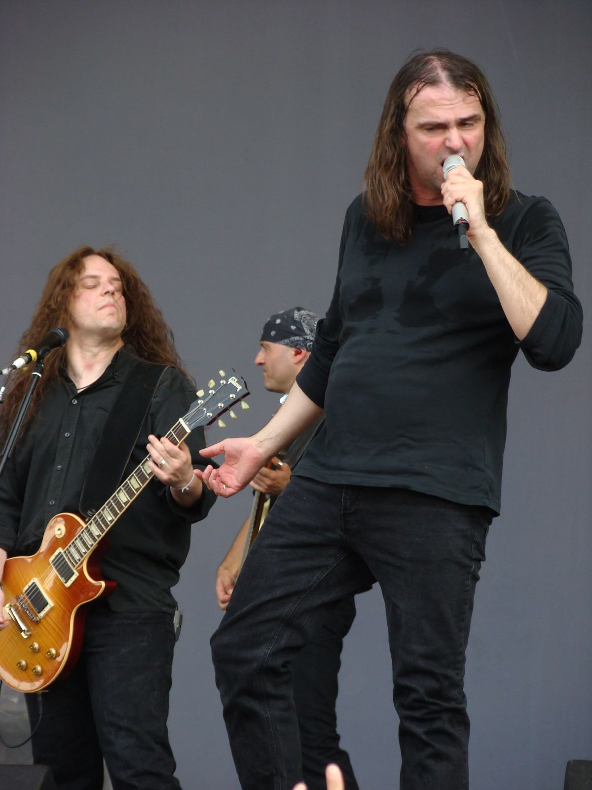 German heavy metal band Blind Guardian. L-R: Marcus Siepen (guitar), Oliver Holzwarth (bass guitar), Hansi Kürsch (vocals).